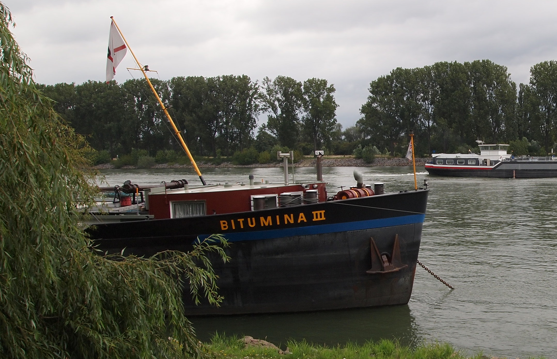 Asphalt tanker Bitumina III